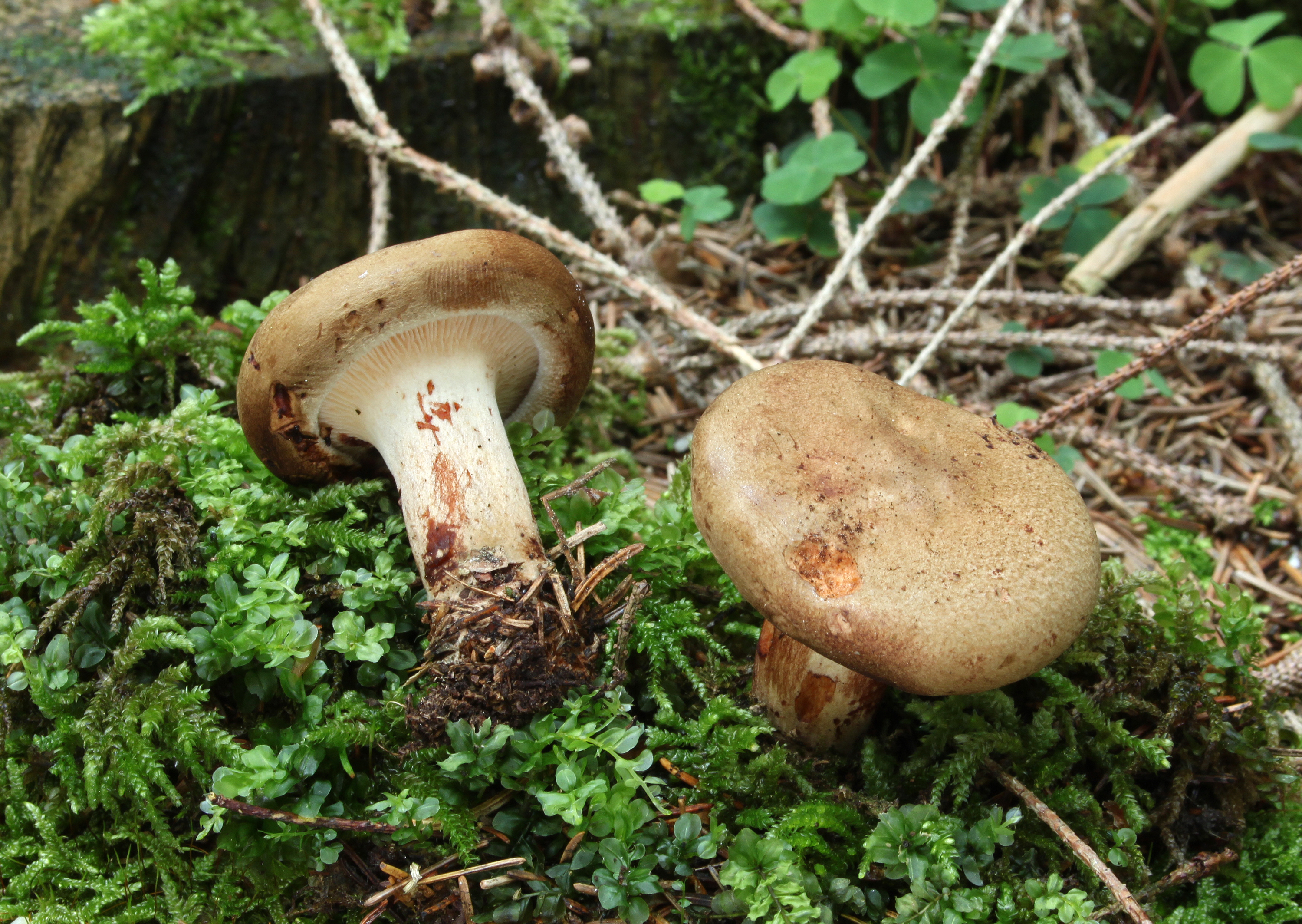 Brown Roll-Rim, Common Roll-Rim or Poison Pax Paxillus involutus, Family: Paxillaceae, Location: Germany, Ulm, Eggingen